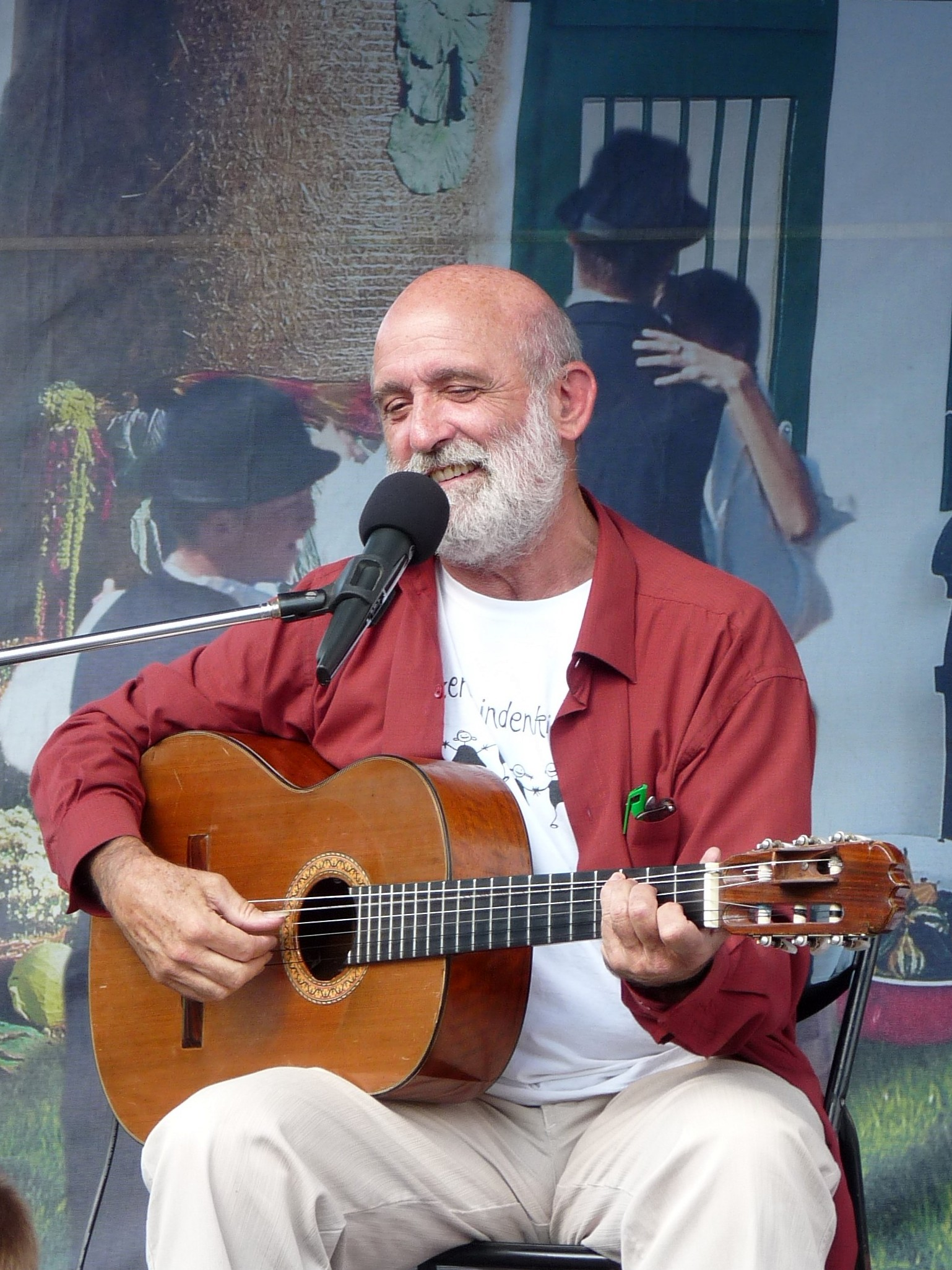 Vilmos Gryllus Hungarian musician and performer in concert for children in Vecsés (Hungary) September 22, 2013.